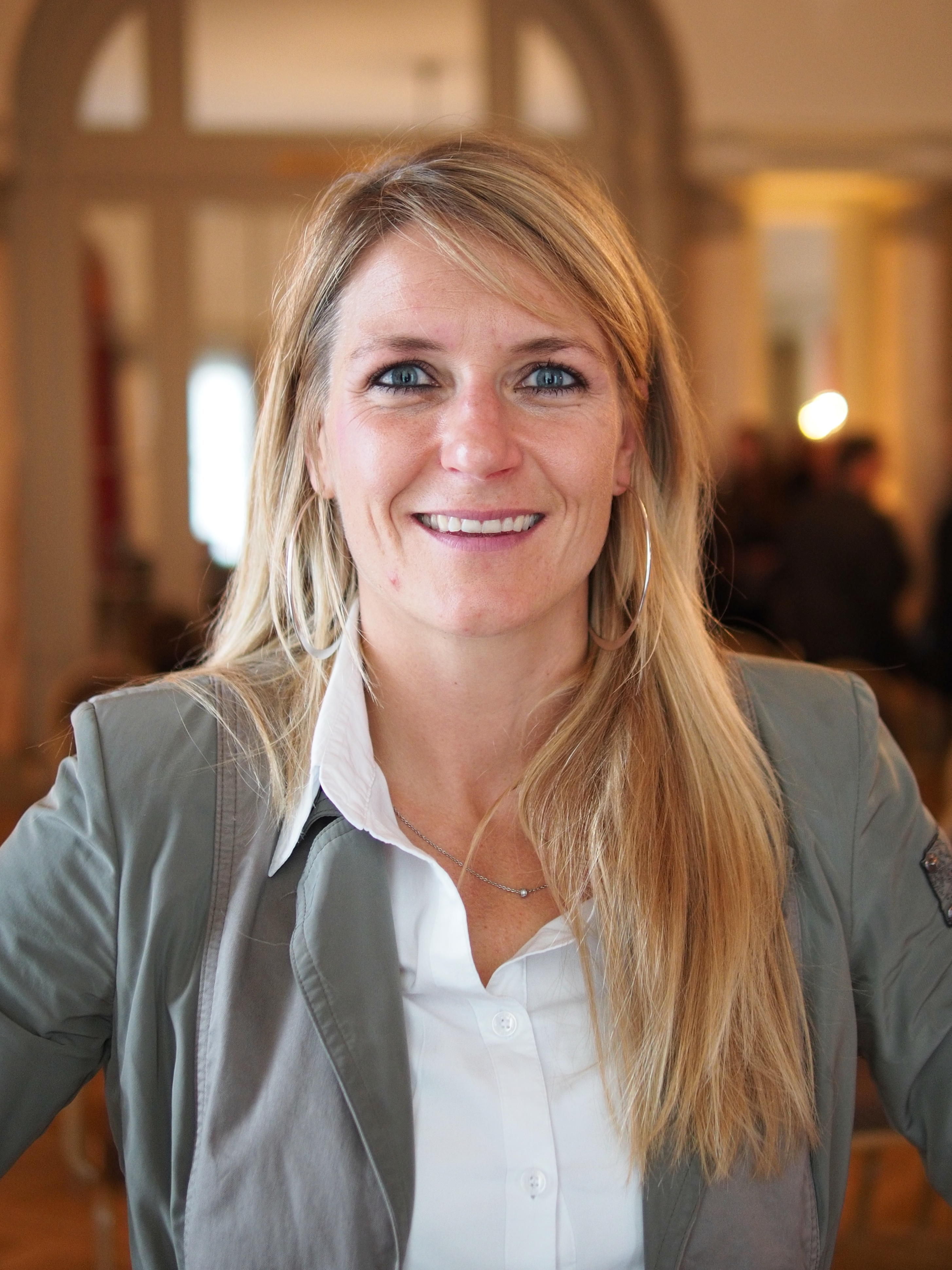 Beatrice Wertli